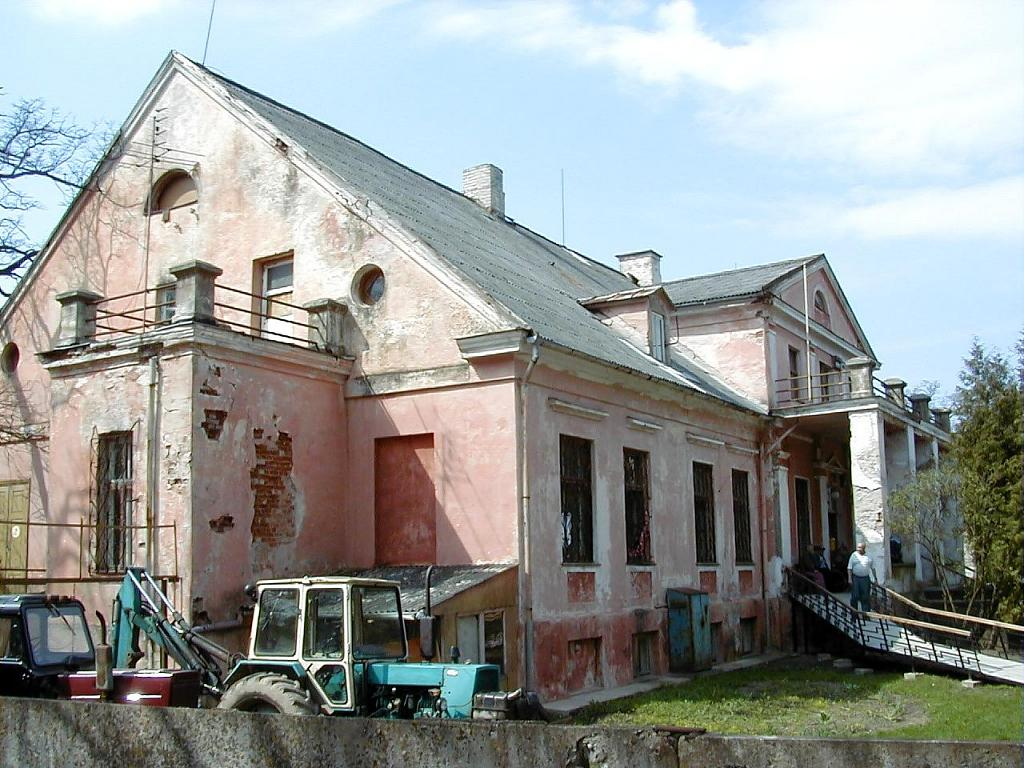 Ihlen manor house